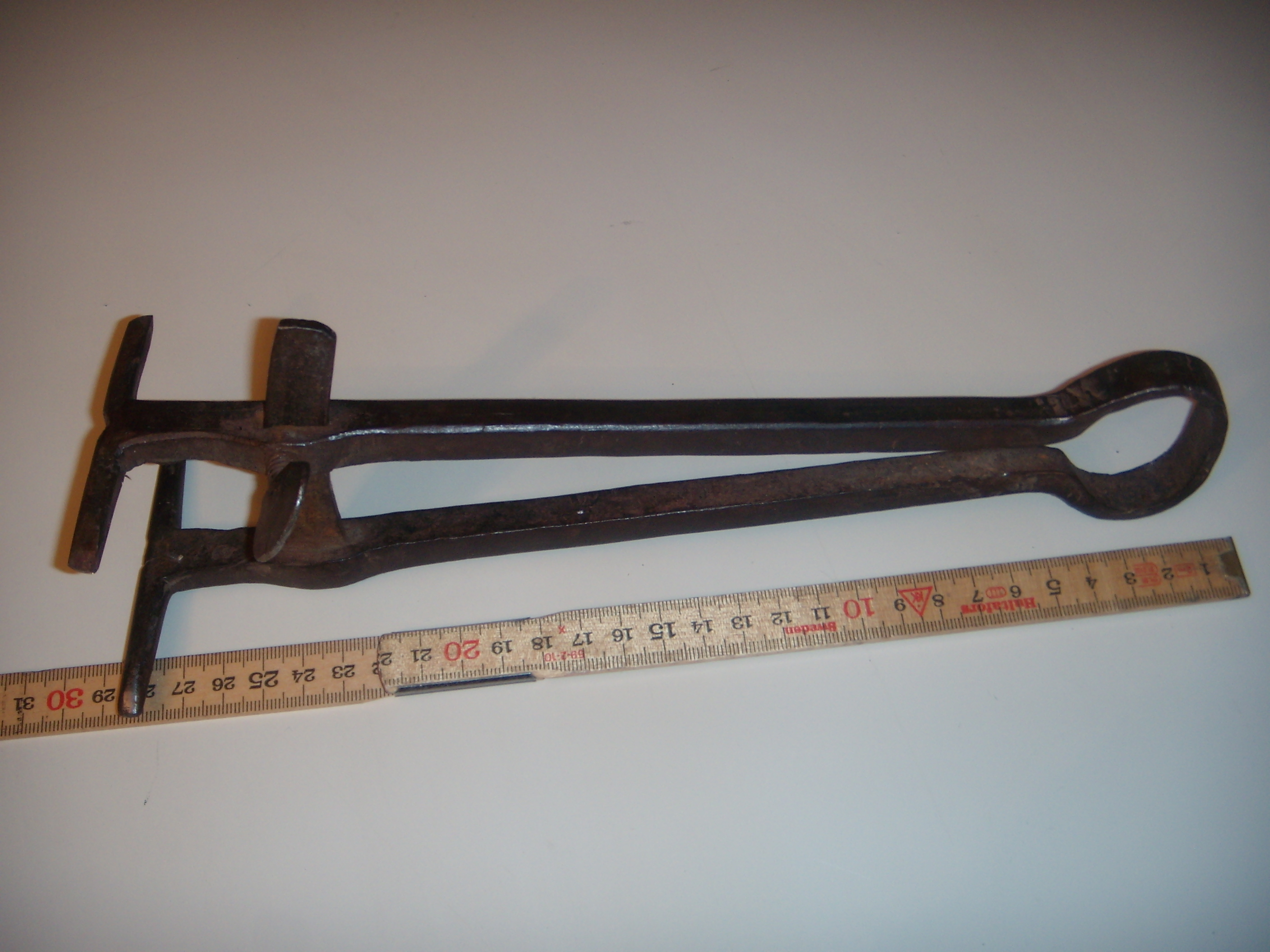 Timberframing tool called `Dragjärn´ in Sweden.